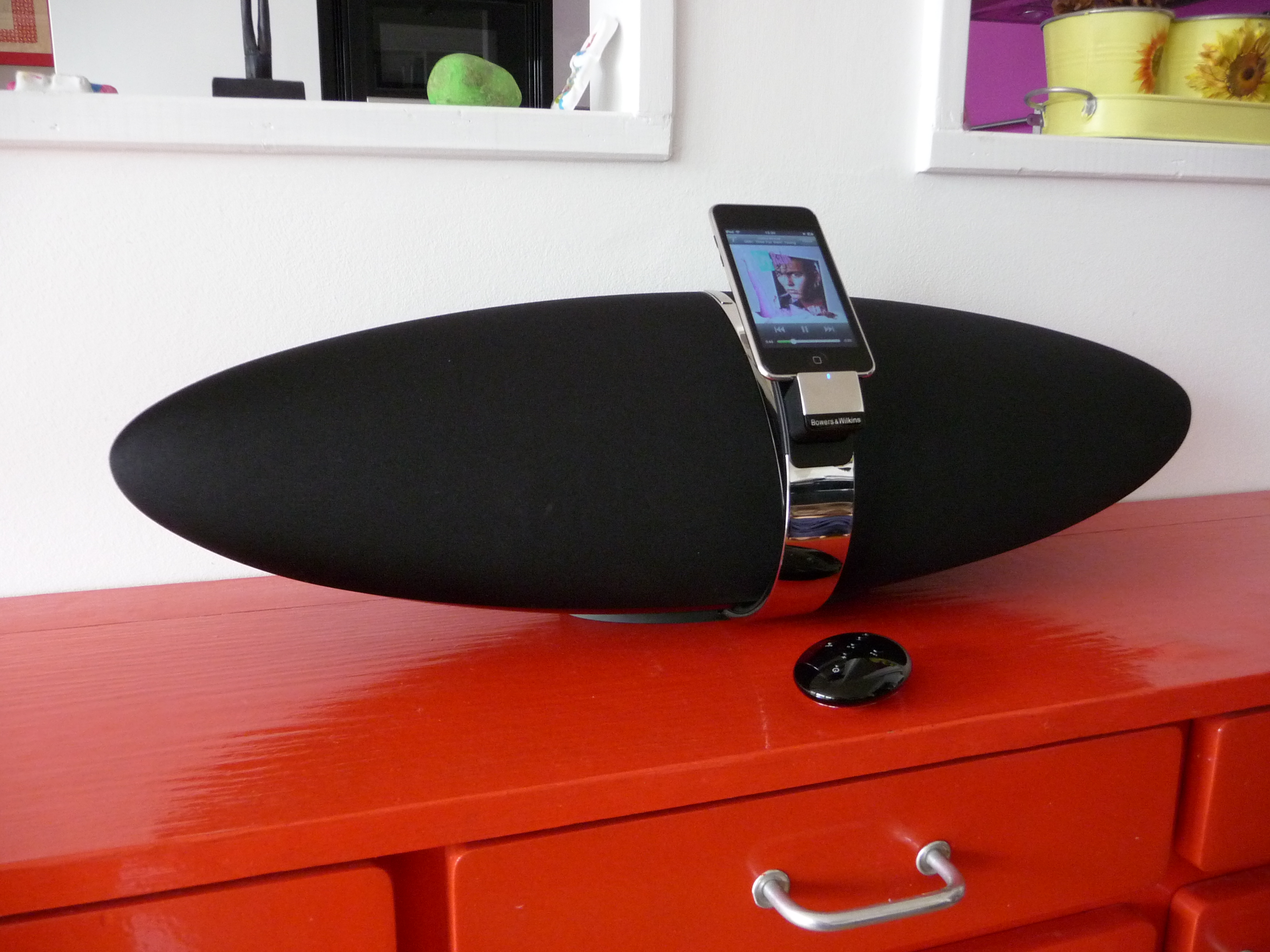 The Bowers & Wilkins Zeppelin dock (2011), with an iPhone plugged in.